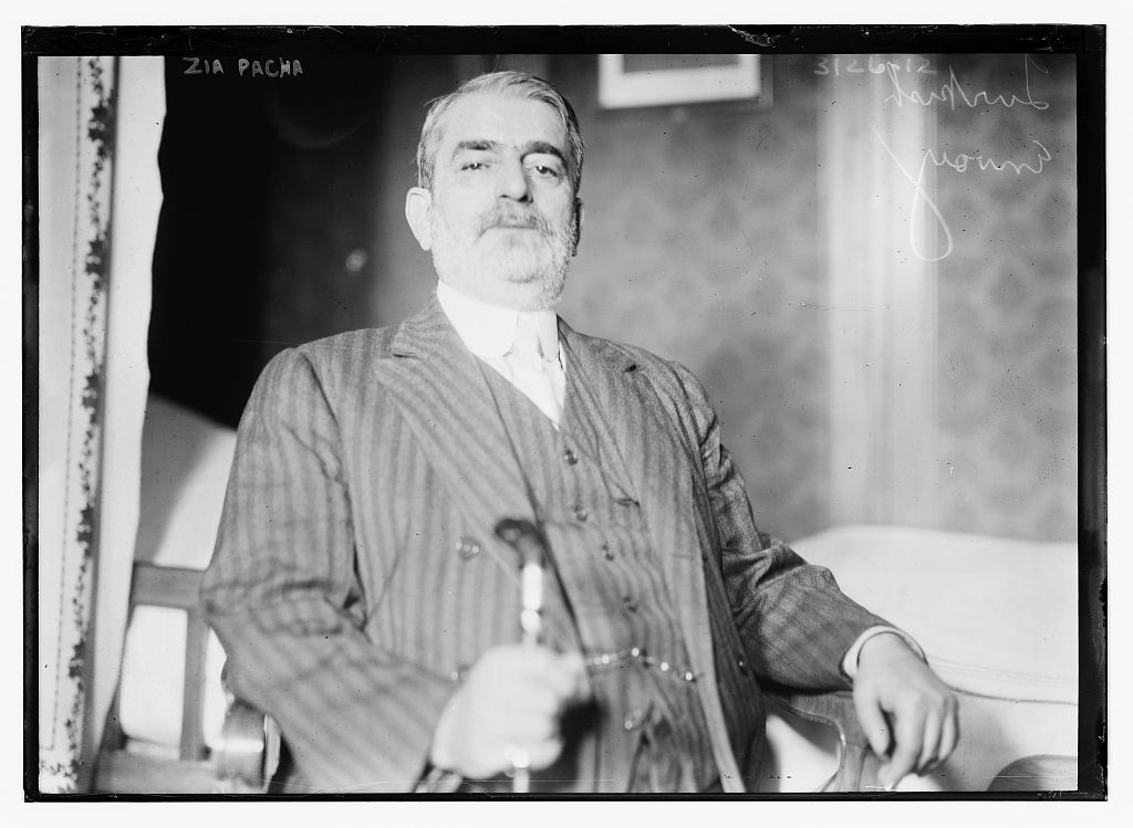 Zia Pacha in 1914 Bain News Service,, publisher. Zia Pacha [between ca. 1910 and ca. 1915] 1 negative : glass ; 5 x 7 in. or smaller. Notes: Title from unverified data provided by the Bain News Service on the negatives or caption cards. Forms part of: George Grantham Bain Collection (Library of Congress). Format: Glass negatives. Repository: Library of Congress, Prints and Photographs Division, Washington, D.C. 20540 USA, General information about the Bain Collection is available at Persistent URL: Call Number: LC-B2- 3126-12